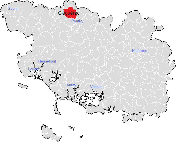 placement Cléguérec in departement Morbihan